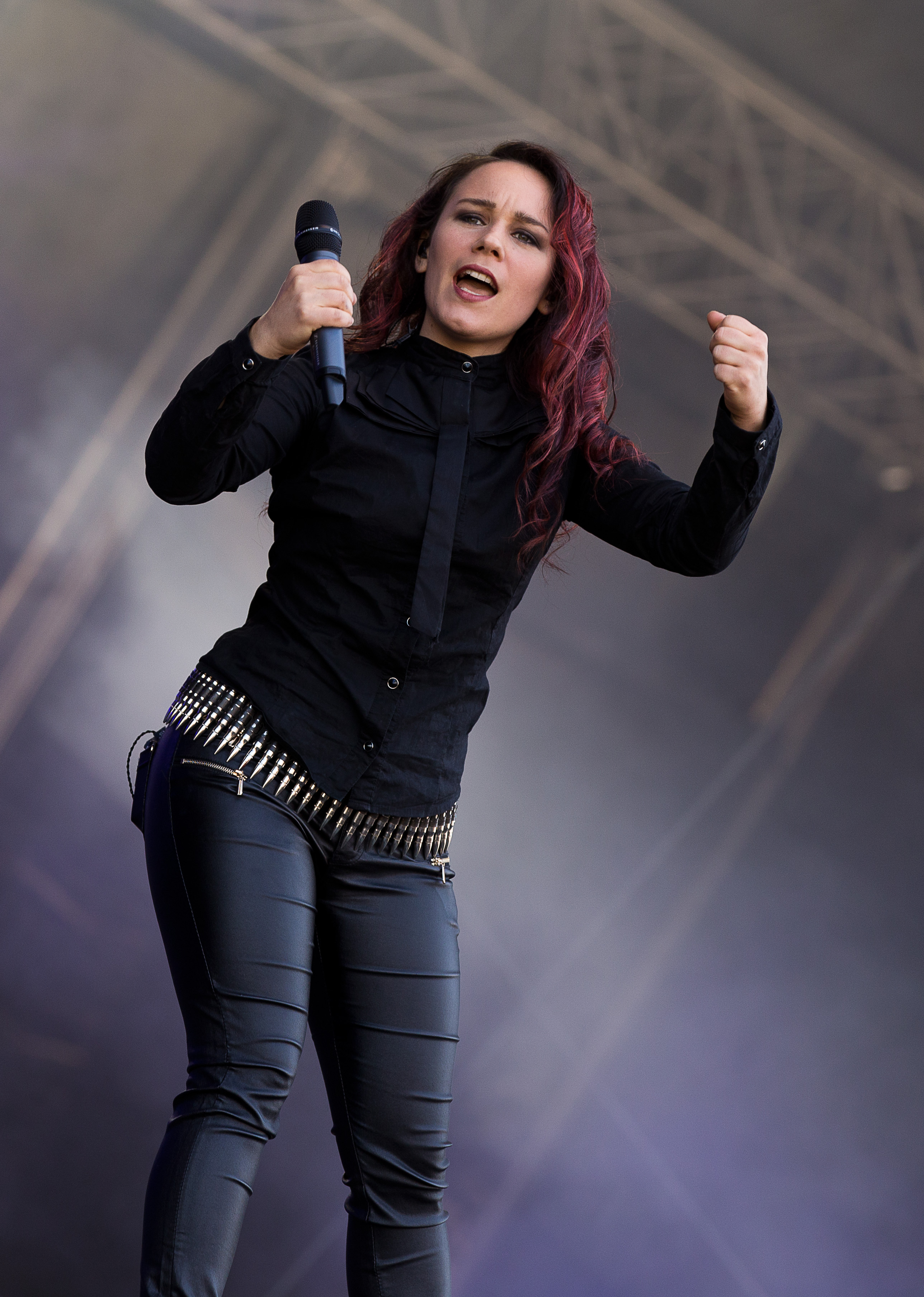 The German melodic death metal band Deadlock at the Rockharz Open Air 2016 in Ballenstedt/Germany.